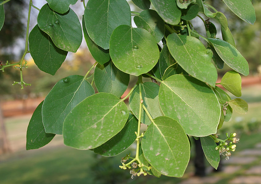 Cordia dichotoma -Indian cherry, Clammy cherry, Fragrant manjack, Lasora, Naruvari, Shelu, Cinnanakkeru, Vad gundo, Bahubara, Goborsuta, Doducallu, Bahuvarah, Challe hannu, mukkuchali palam, Botuku, Chokri, Shelu sheri, Bhokar, Lahsoda, Lahsua or Lasorha, Sebeston Plum or Bhuselin in Hyderabad, India.